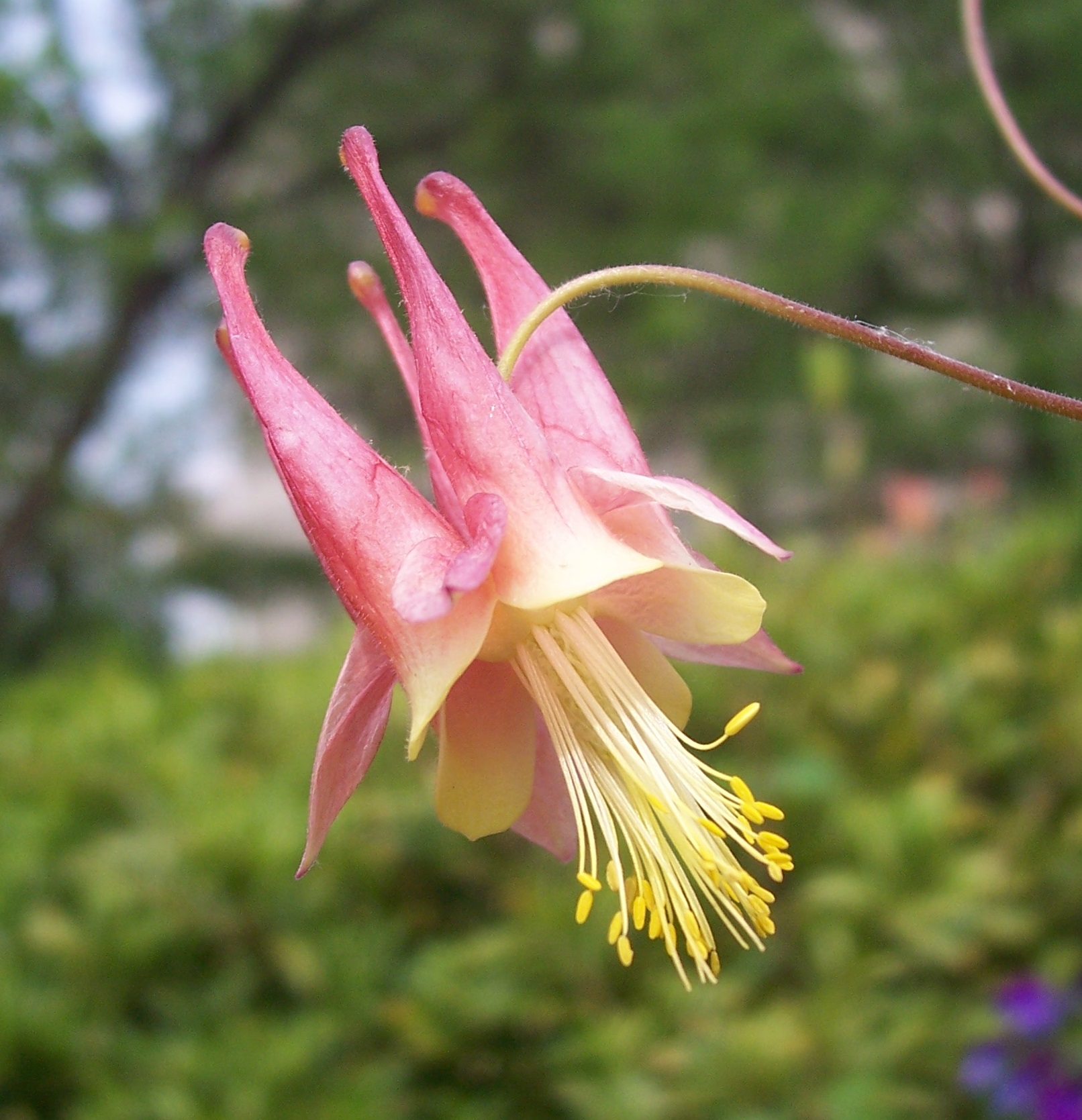 Aquilegia formosa at the Smithsonian Gardens